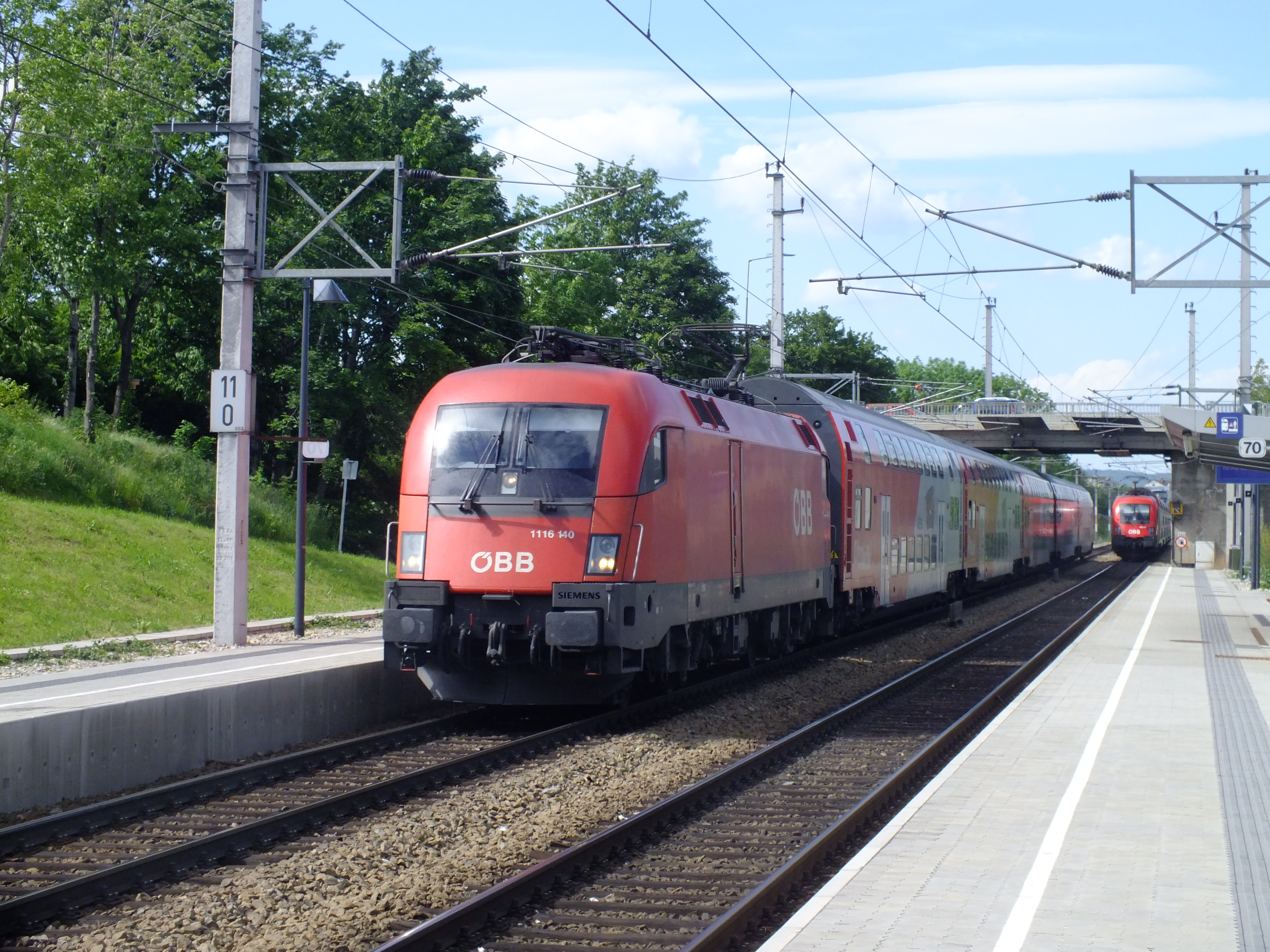 Two ÖBB/VOR Regional trains meet at Perchtoldsdorf.